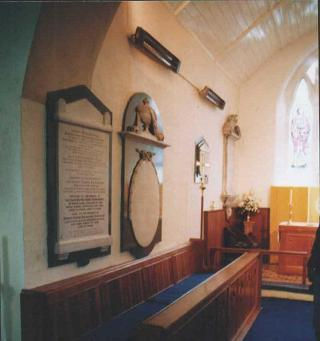 Image of monuments in Llanllwch church